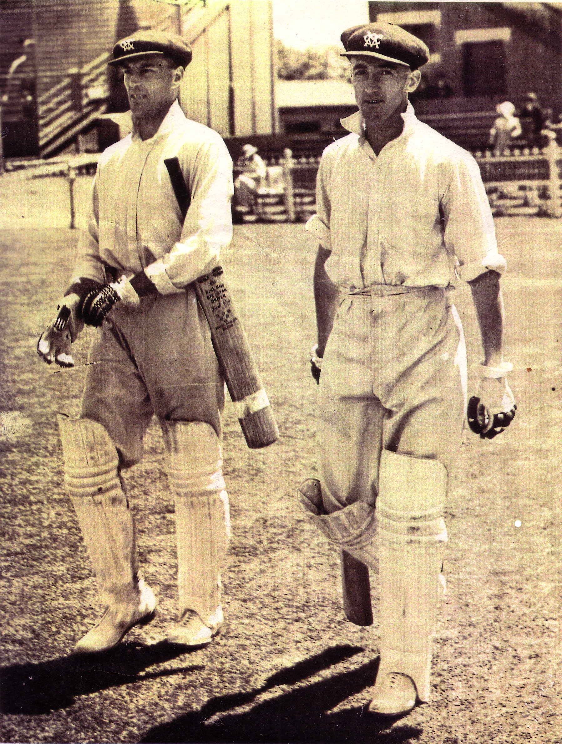 Keith Rigg (pictured on the left) with opening batting partner walking out to bat for Victoria